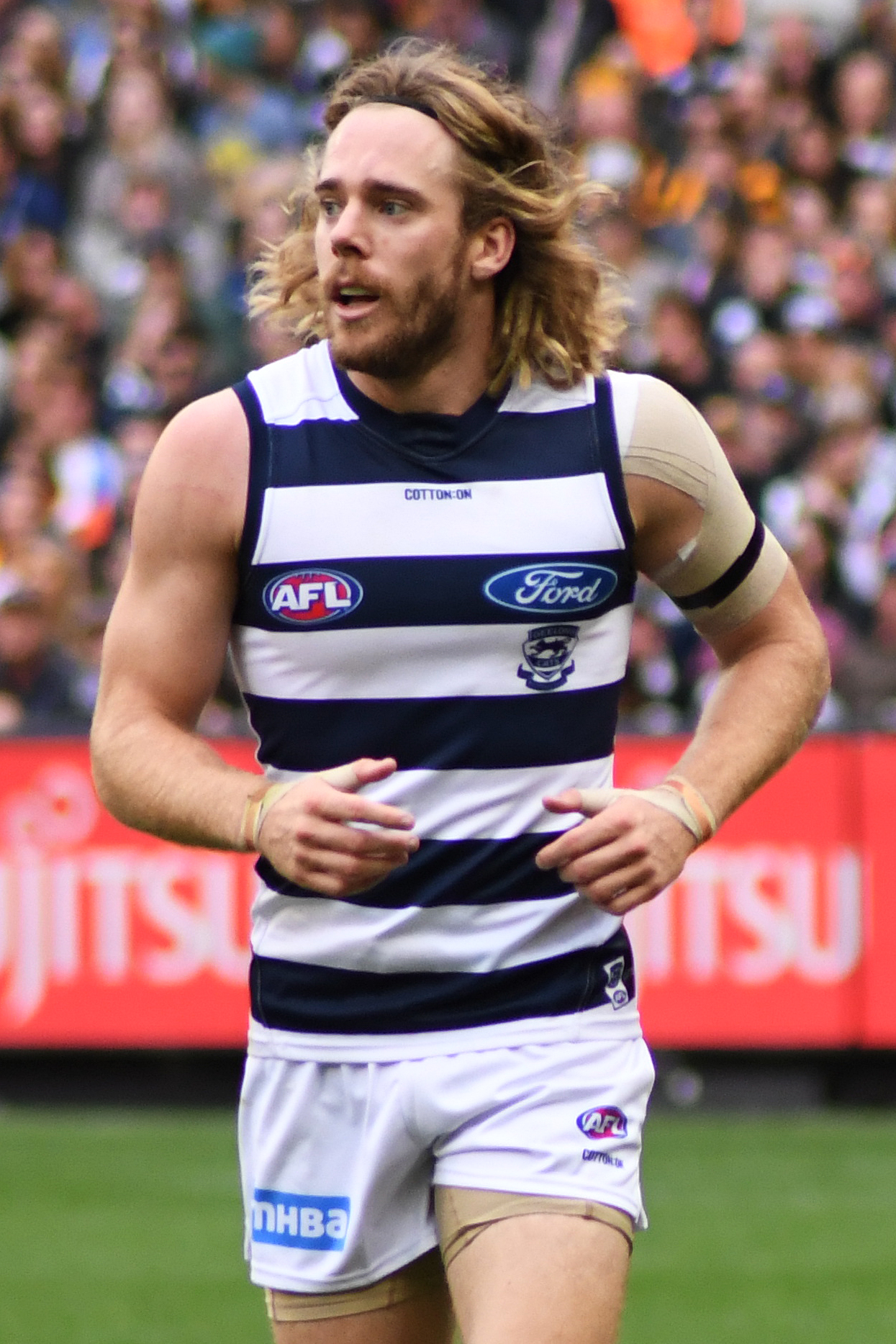 Cameron Guthrie of Geelong during the 2019 AFL round 5 match between Hawthorn and Geelong at the Melbourne Cricket Ground on Monday, 22 April 2019 in Melbourne, Victoria.